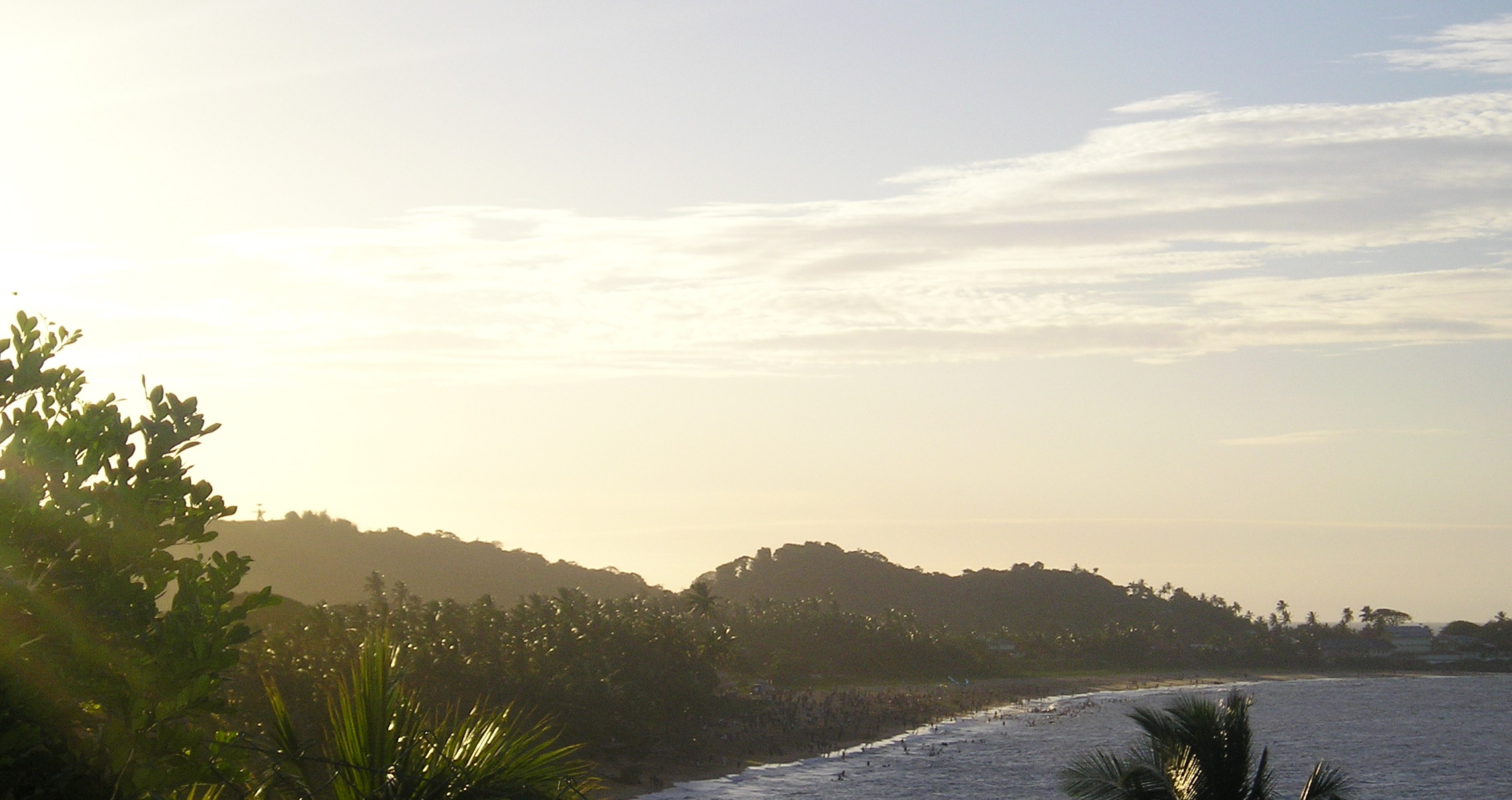 VIEW OF NOVOTEL BEACH FROM A NEAR HILL